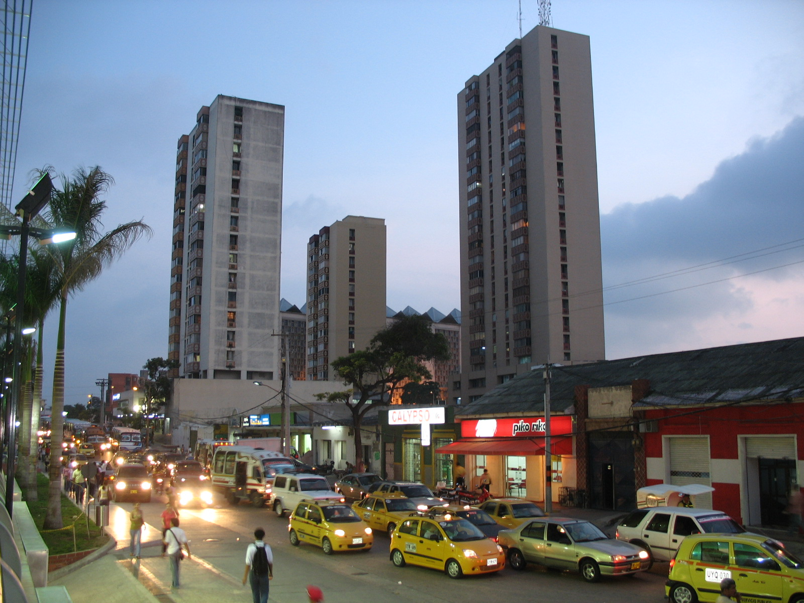 Barranquilla - Caracas street commercial zone.